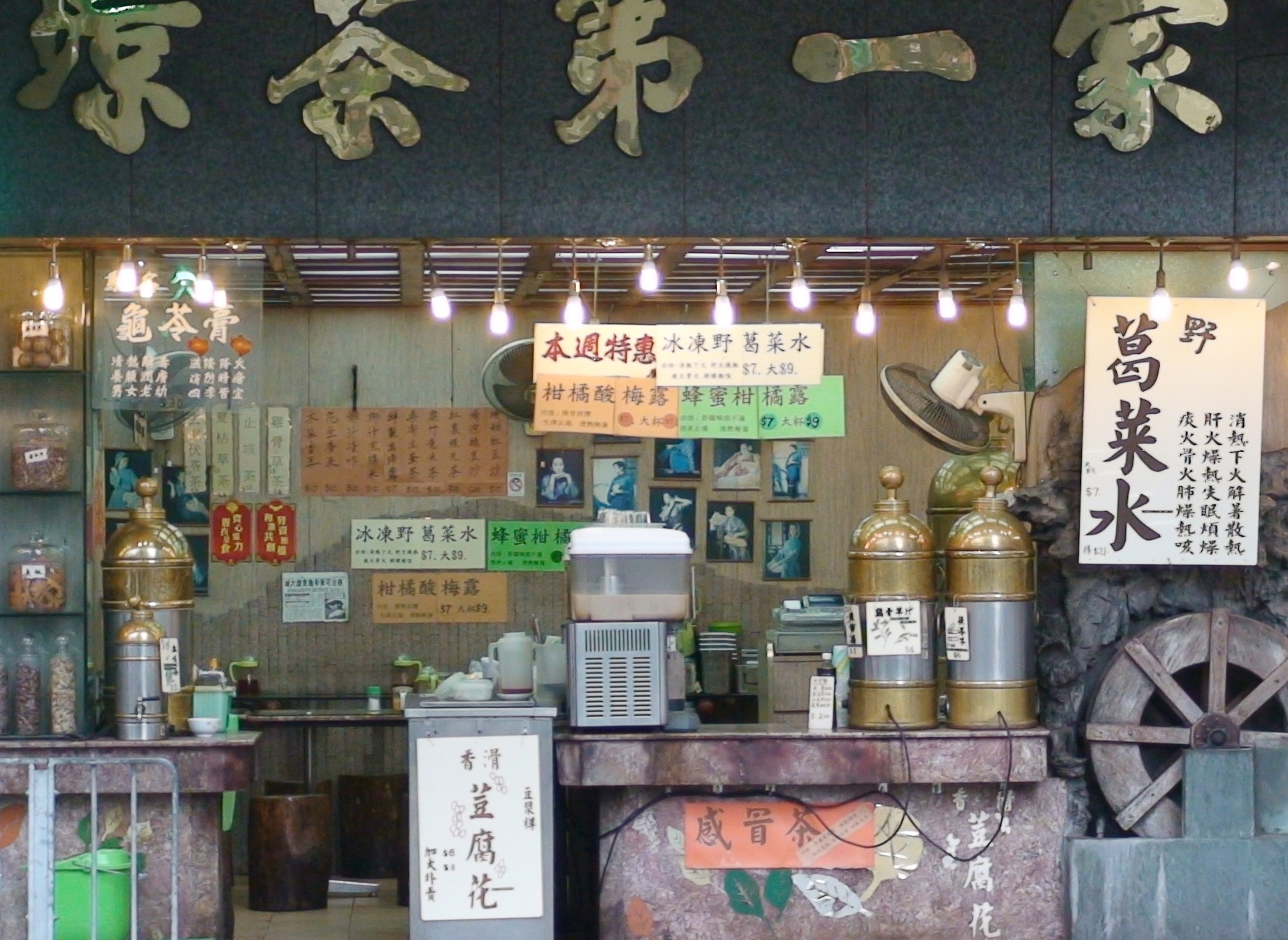 A Chinese Herbal Tea shop (涼茶鋪) in Wan Chai , Hong Kong